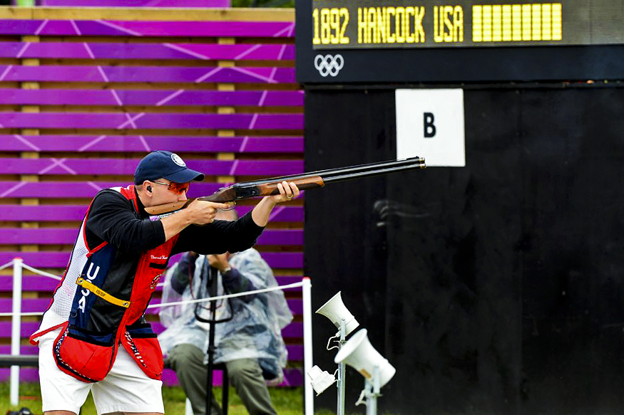 In double record-setting fashion, Sgt. Vincent Hancock became the first shotgun shooter to win consecutive Olympic gold medals in men’s skeet on Tuesday at the Royal Artillery Barracks. Hancock, 23, a Soldier in the U.S. Army Marksmanship Unit from Eatonton, Ga., eclipsed his own records set at the 2008 Beijing Games for both qualification (123) and total (148) scores. He struck gold in China with a qualification score of 121 and total of 145. Hancock prevailed by two shots over silver medalist Anders Golding (146) of Denmark and by four shots over Qatar’s Nasser Al-Attiya (144), who secured the bronze medal by winning a shoot-off against Russia’s Valeriy Shomin.